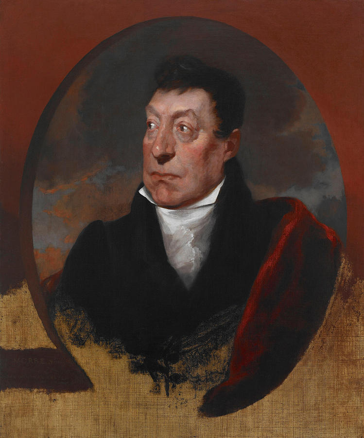 Samuel Finley Breese Morse (1791 - 1872)